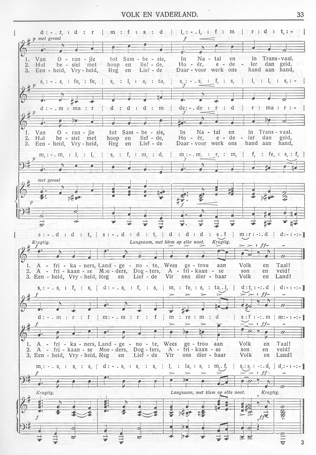 Excerpt from the F.A.K.-Volksangbundel.